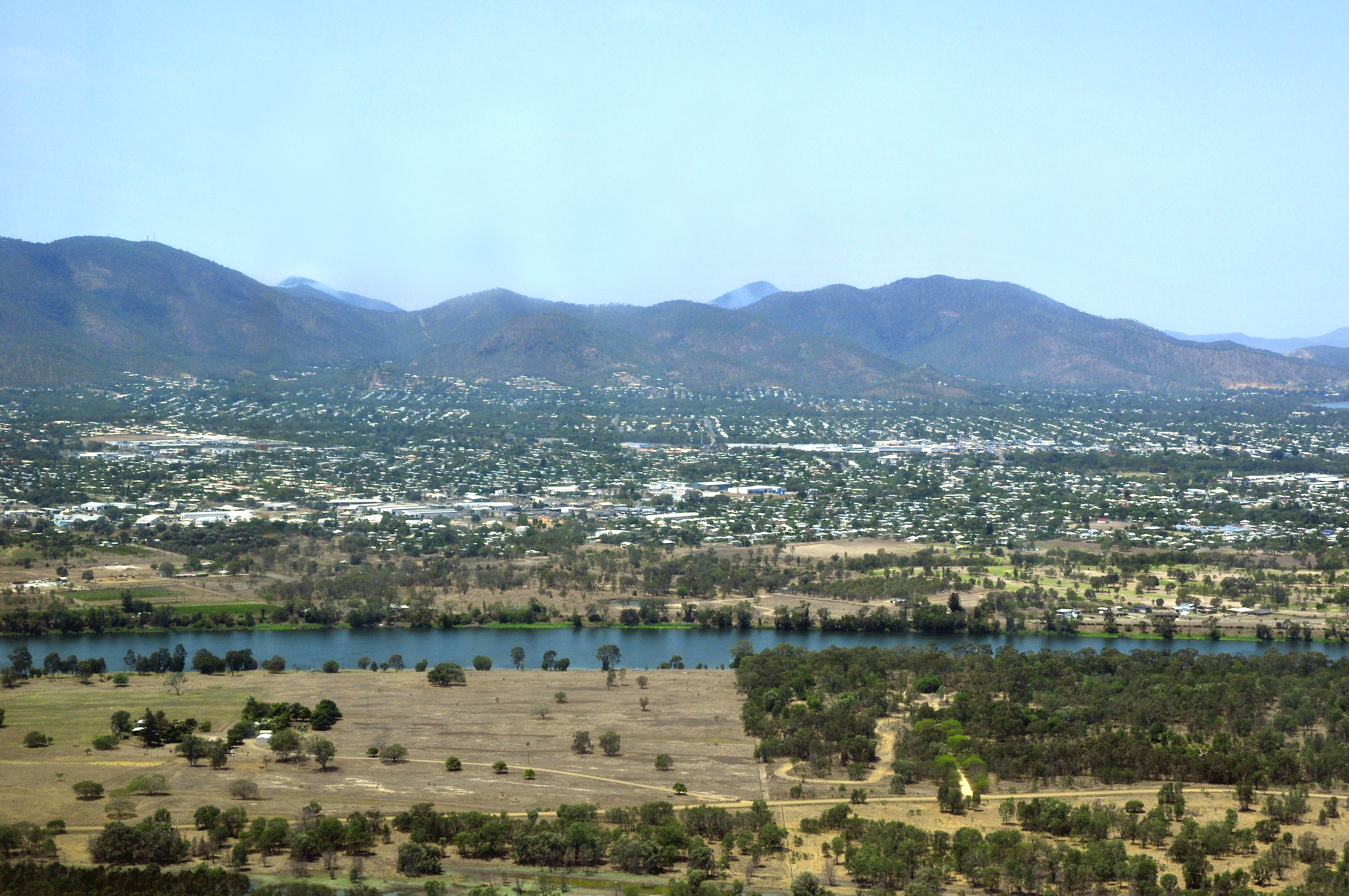 Aerial view of the town, from west. Rockhampton, Queensland, Australia